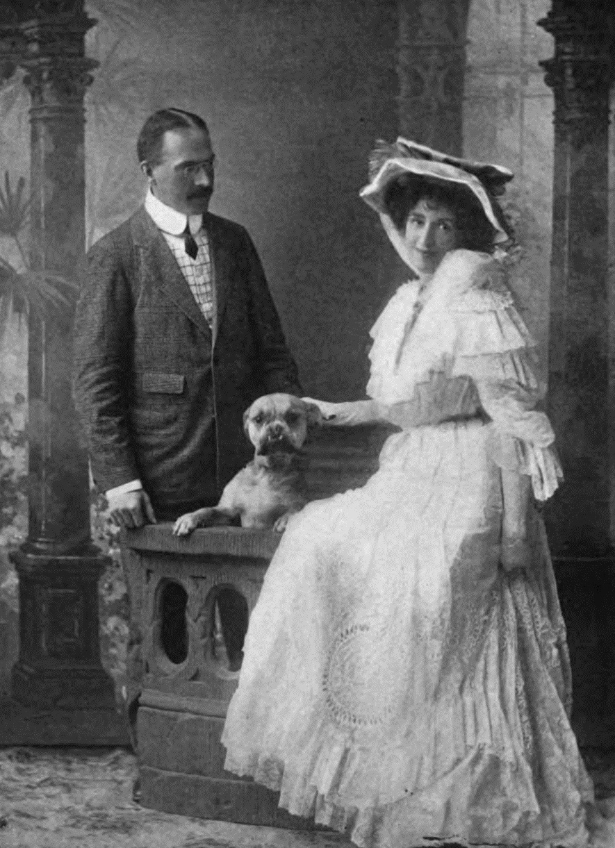 "Mr. and Mrs. C.N. Williamson"